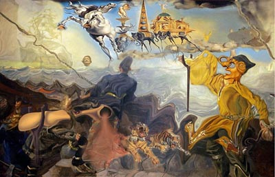 Photo manipulation created for Photoshop contest by Robert E. Haraldsen qualifying him for the 2006 Norwegian mastership contest.